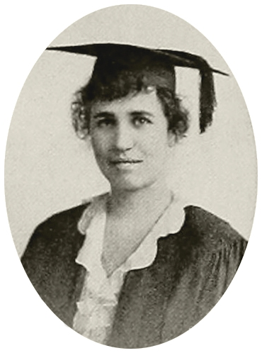 Artist Edith Mahier senior portrait photo, Newcomb College, Tulane University. Illustration in "Jambalaya" Tulane University yearbook, New Orleans, 1916.